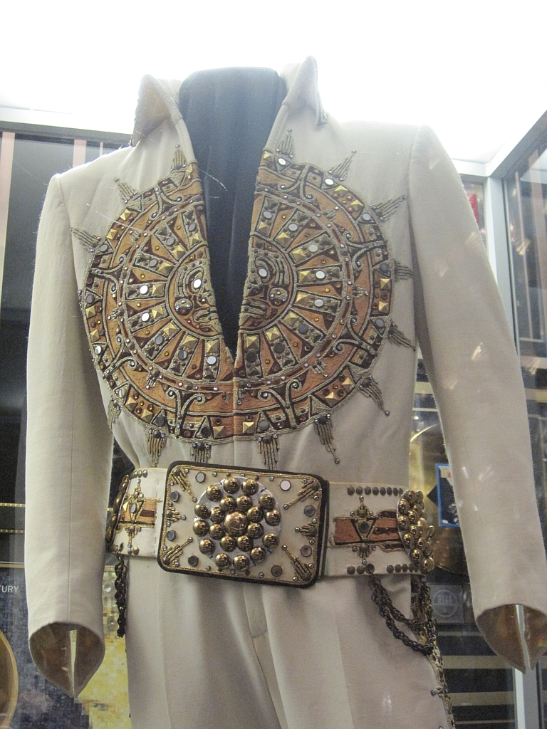 Graceland, Memphis, Tennessee. Jumpsuit